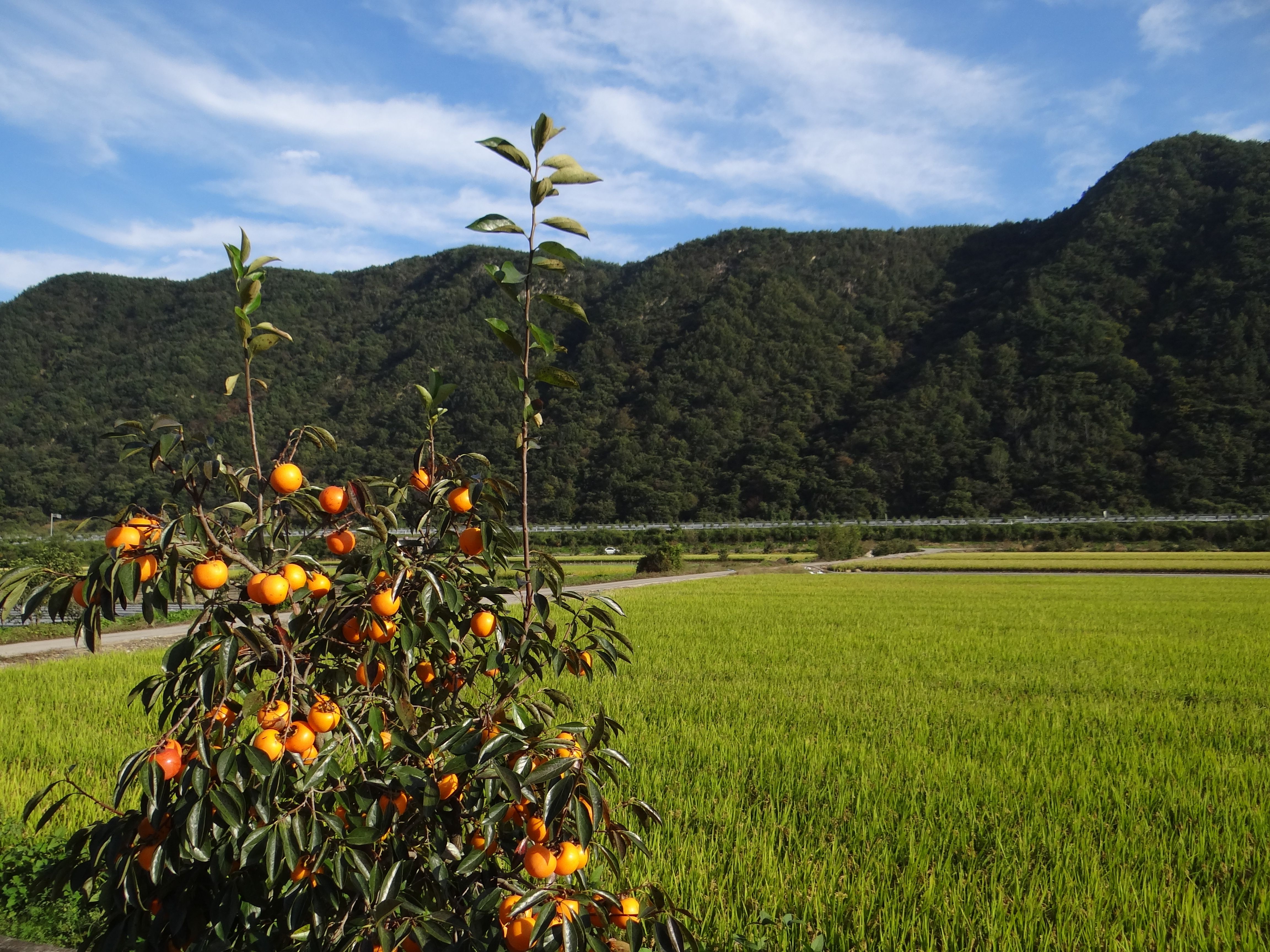 This is a scenery picture I took in October 2017 in Wanju.